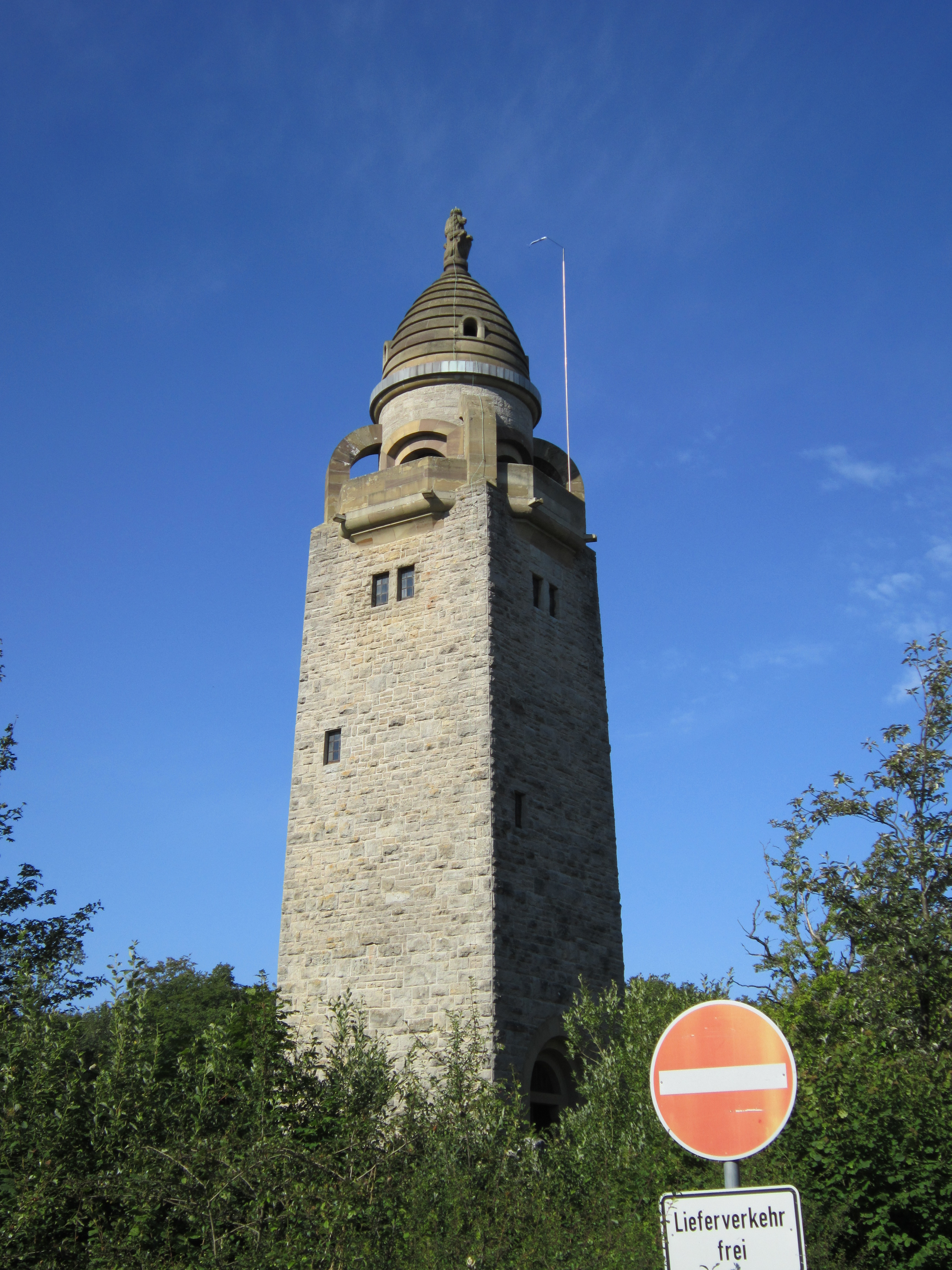 The "Wittelsbacher Turm", an observation tower in Arnshausen, a quarter of the German spa town Bad Kissingen in Lower Franconia (Bavaria).